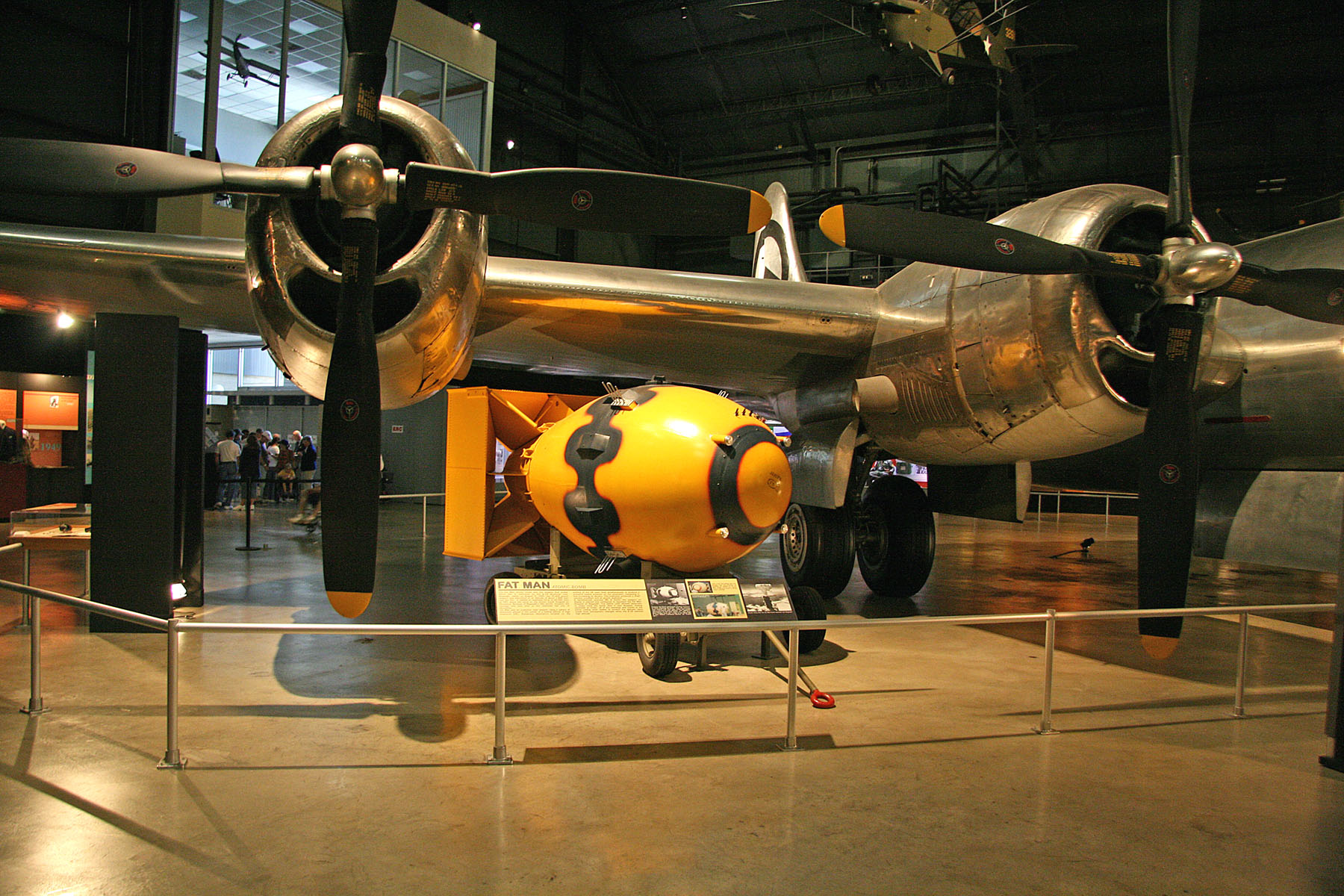 Postwar "Fat Man" bomb casing painted like the one dropped on Nagasaki, next to the B-29 Bockscar that actually dropped the original bomb during World War II.